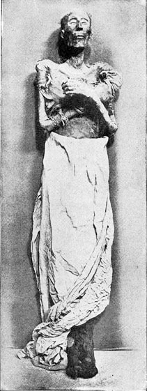 King Ramses II of Egypt.